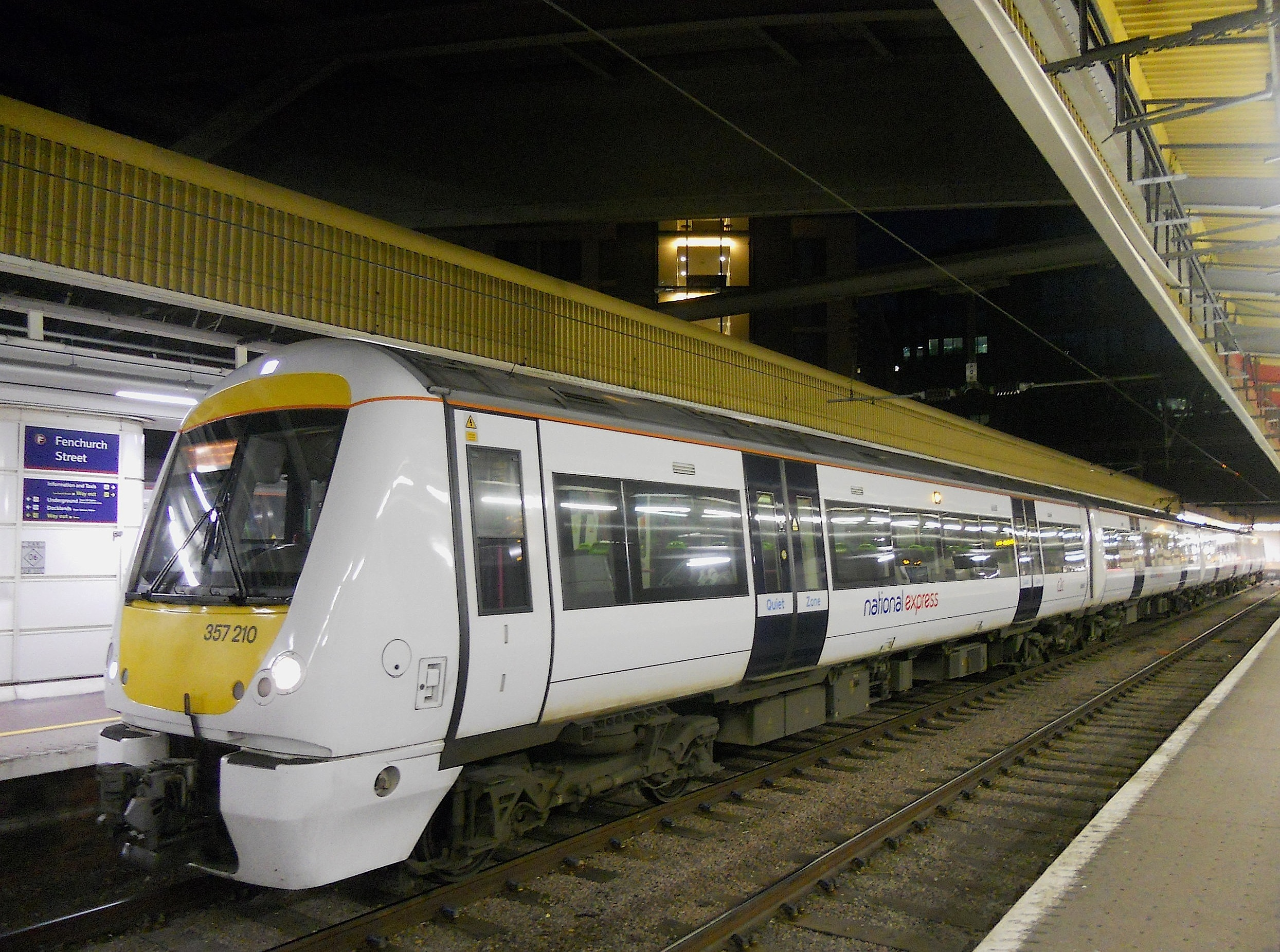 c2c Class 357/2 No. 357210 at Fenchurch Street during the night